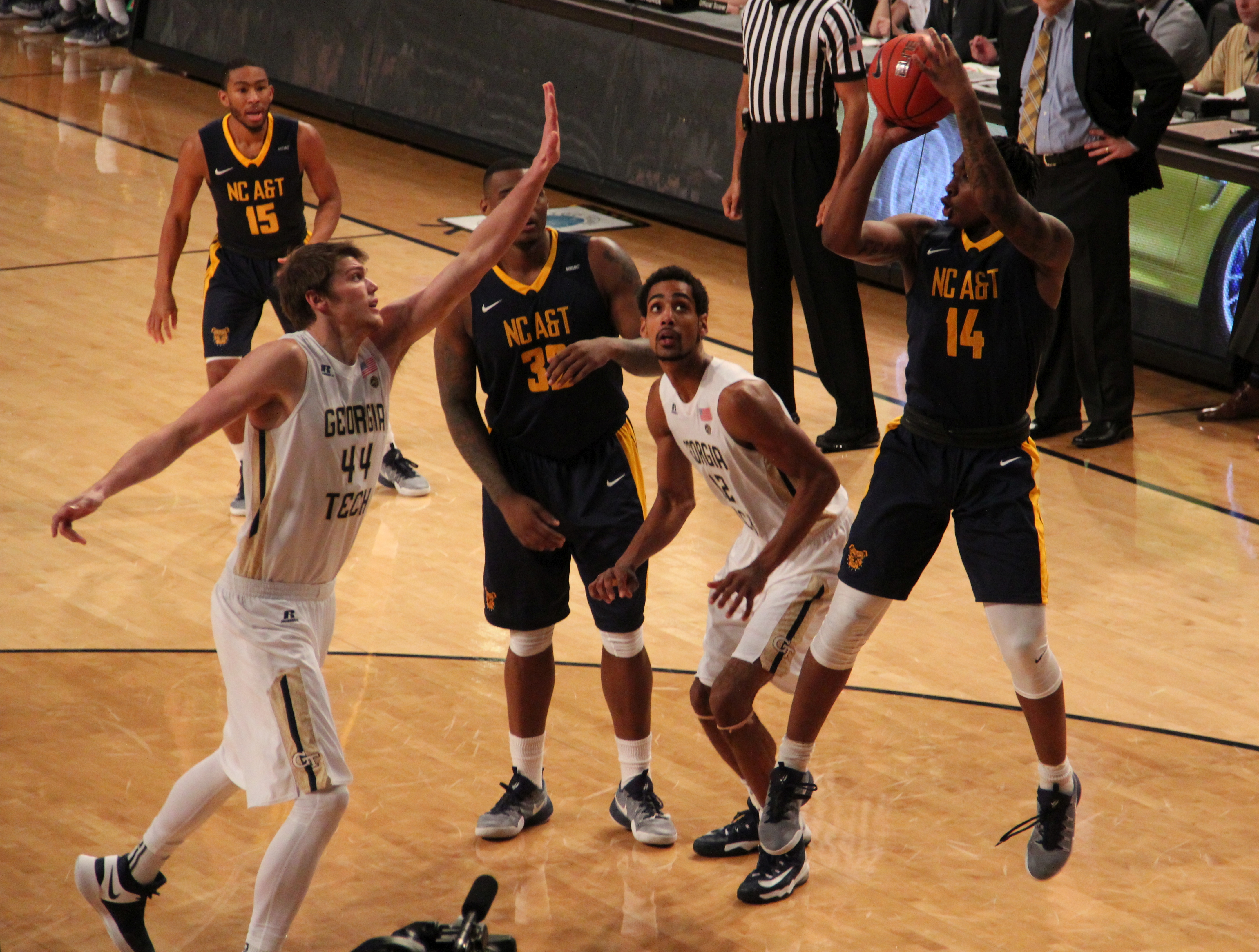 Georgia Tech Yellow Jackets vs. North Carolina A&T Aggies, December 28, 2016